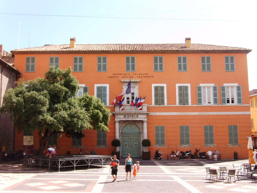 Fréjus (83-fr) Townhall